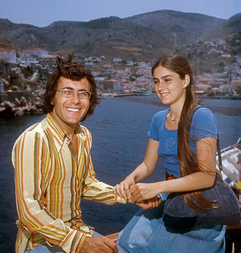 Italian singer and actor Al Bano (Albano Carrisi) and American-born Italian singer Romina Power posing smiling during a holiday in Greece. Greece, 1975.